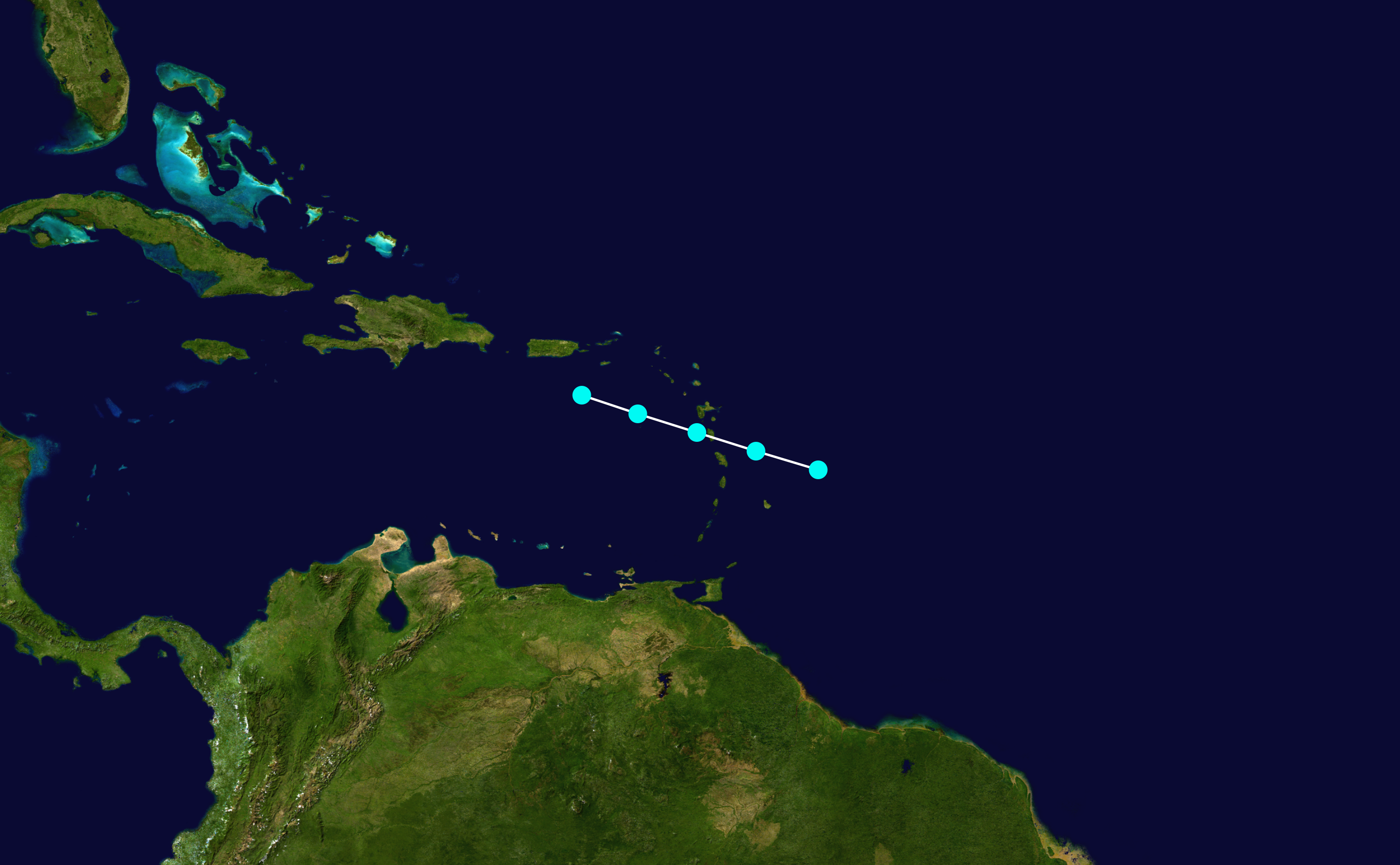 Tropical Storm Edith (1959) track. Uses the color scheme from the Saffir-Simpson Hurricane Scale.